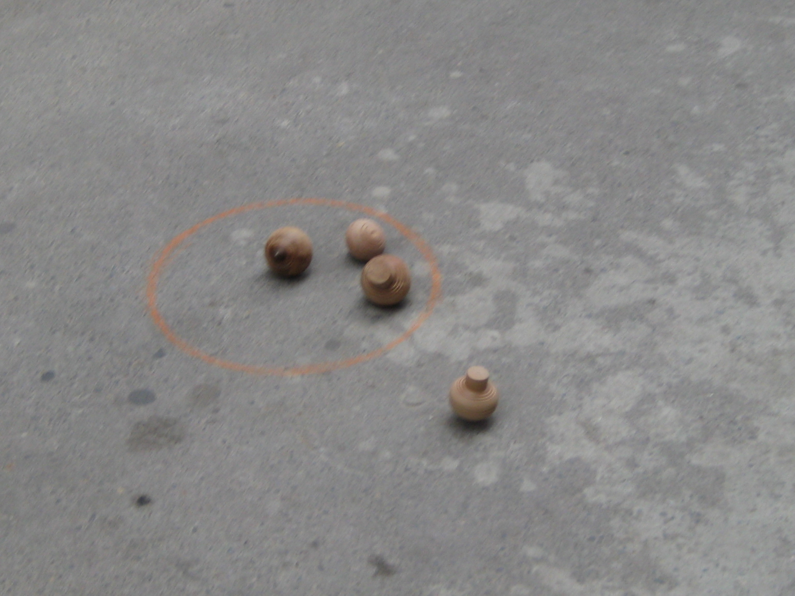 Vietnamese Tops